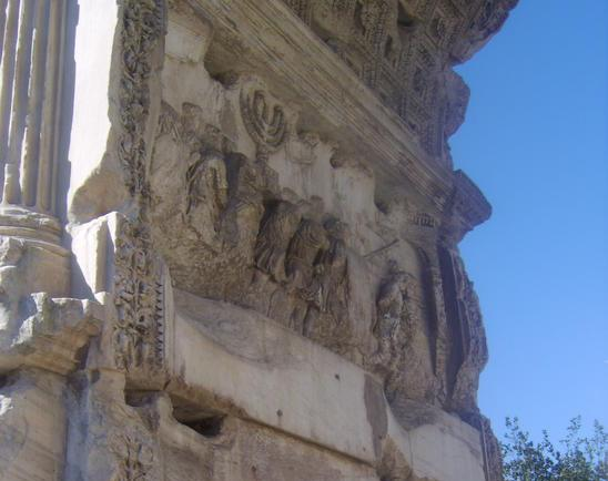 Relief on the inside of Arch of Titus in Rome